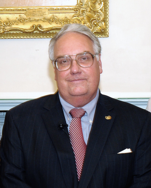 Howard Buffett at the U.S. Department of State in Washington, D.C., on October 24, 2011.